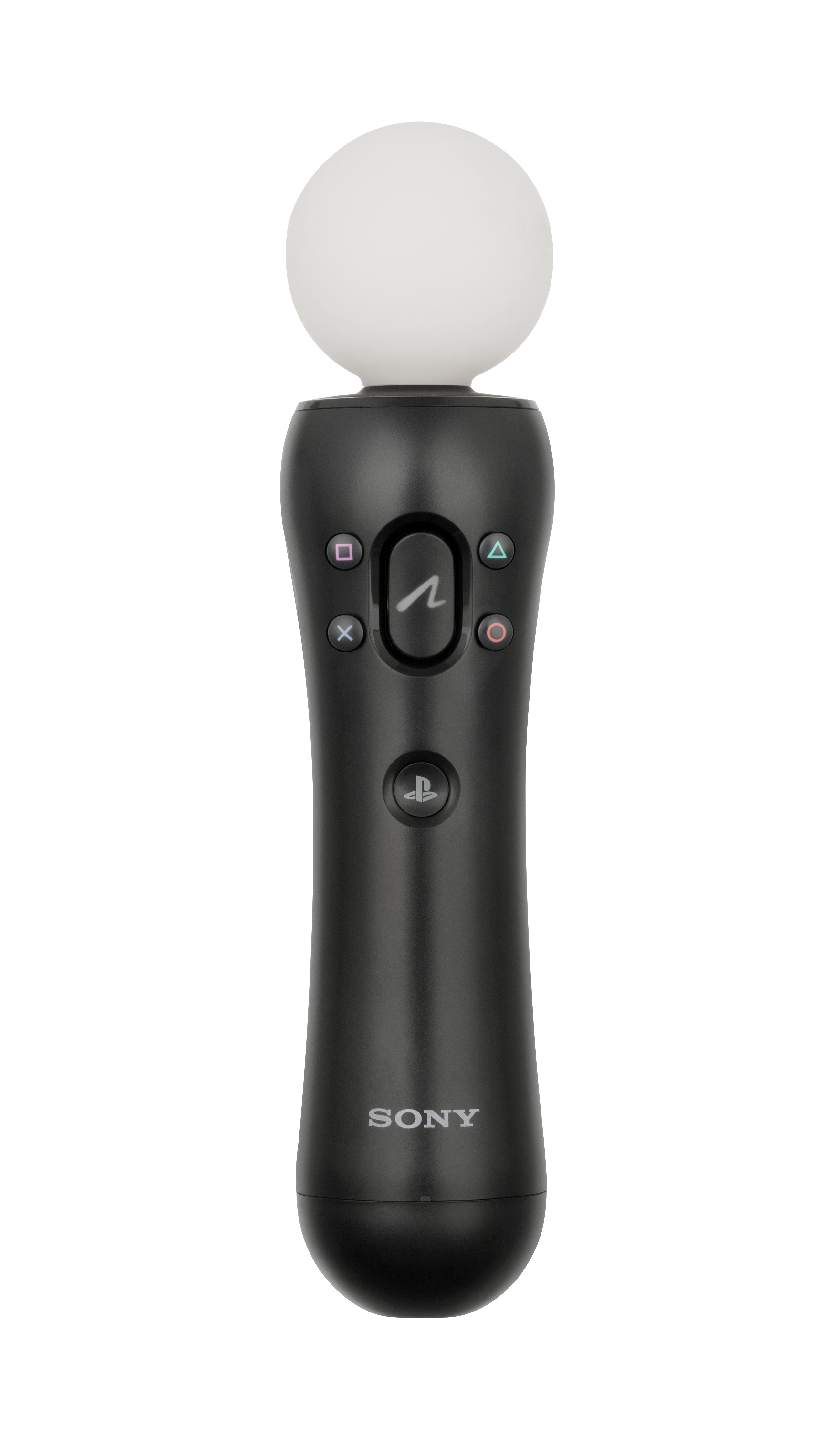 The PlayStation Move controller. A motion-sensing controller for the PlayStation 3 and PlayStation 4, needs to be used in conjunction with the PS Eye or PS4 Camera.